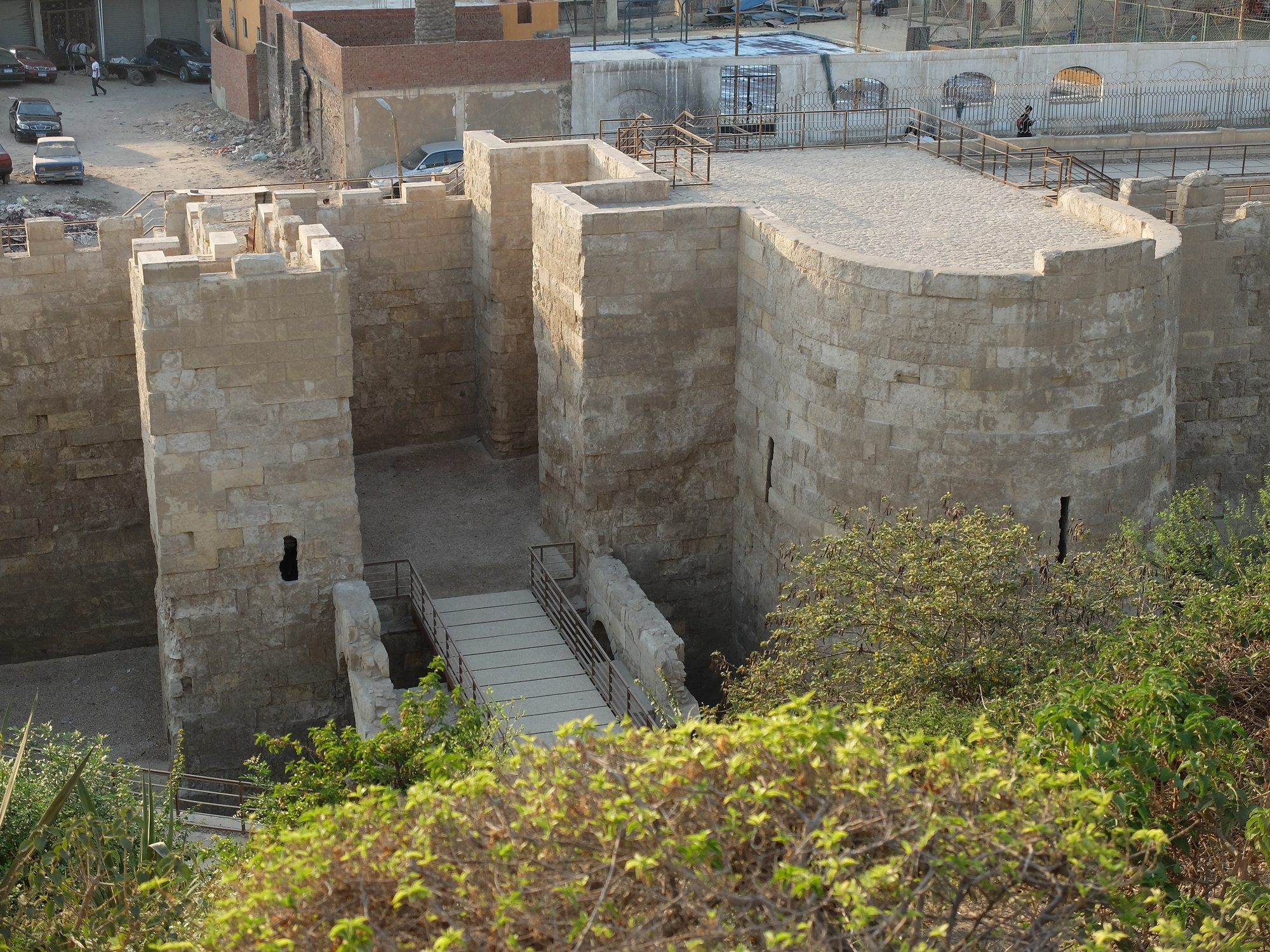 Bab al-Barqiyya, a former eastern city gate of Cairo in the Ayyubid Walls, excavated and restored as part of Al-Azhar Park.